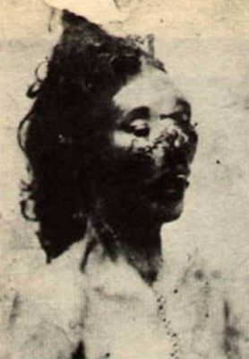 Mortuary Photograph of Catherine Eddowes, a victim of Jack the Ripper. Original photograph in collection of Royal London Hospital Archives and Museum, catalog number MC/PM/5/2/5. Crown copyright in material held in public records repositories is waived[1].